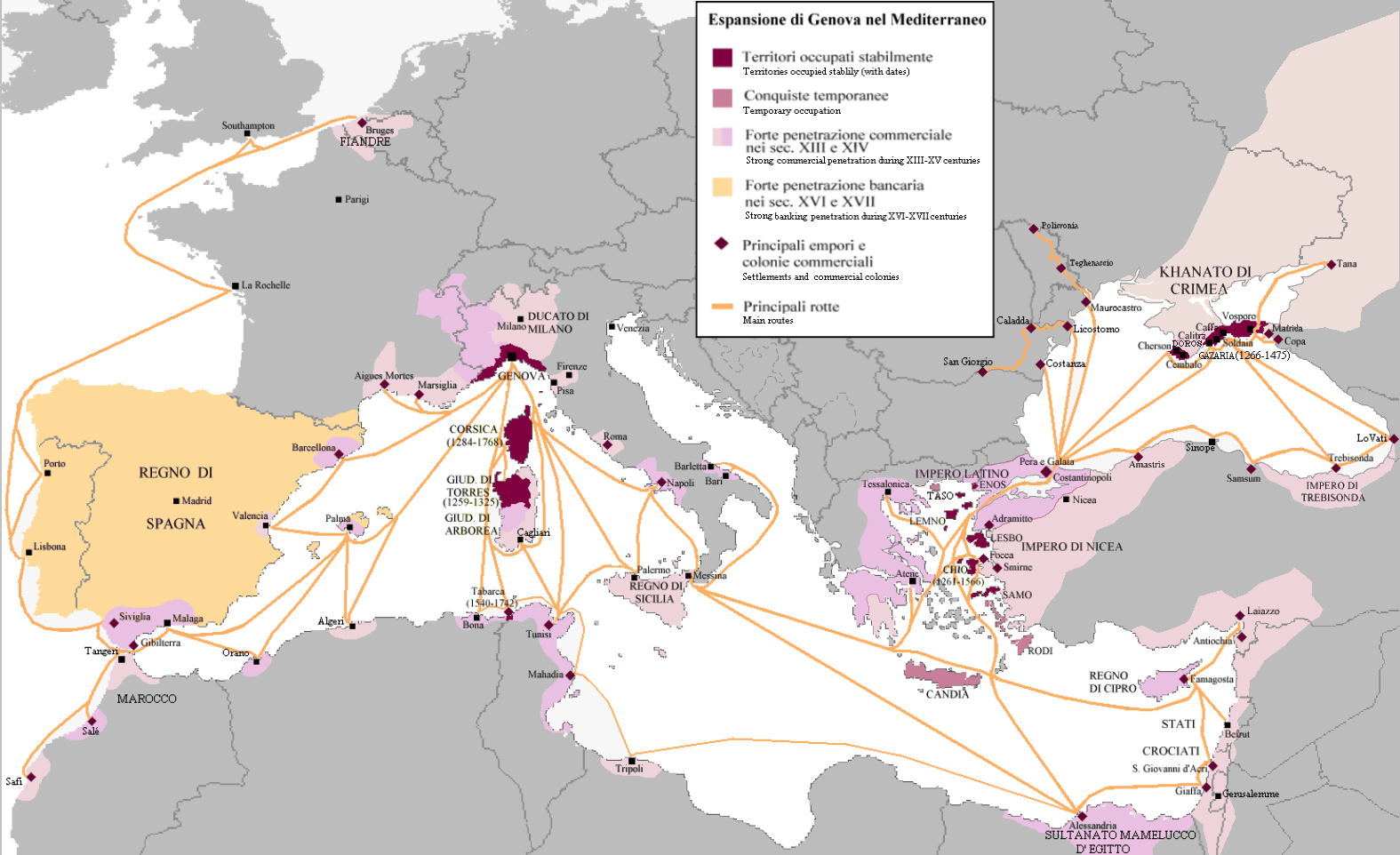 Expansion of Genoa around the Mediterranean and the Black Sea.